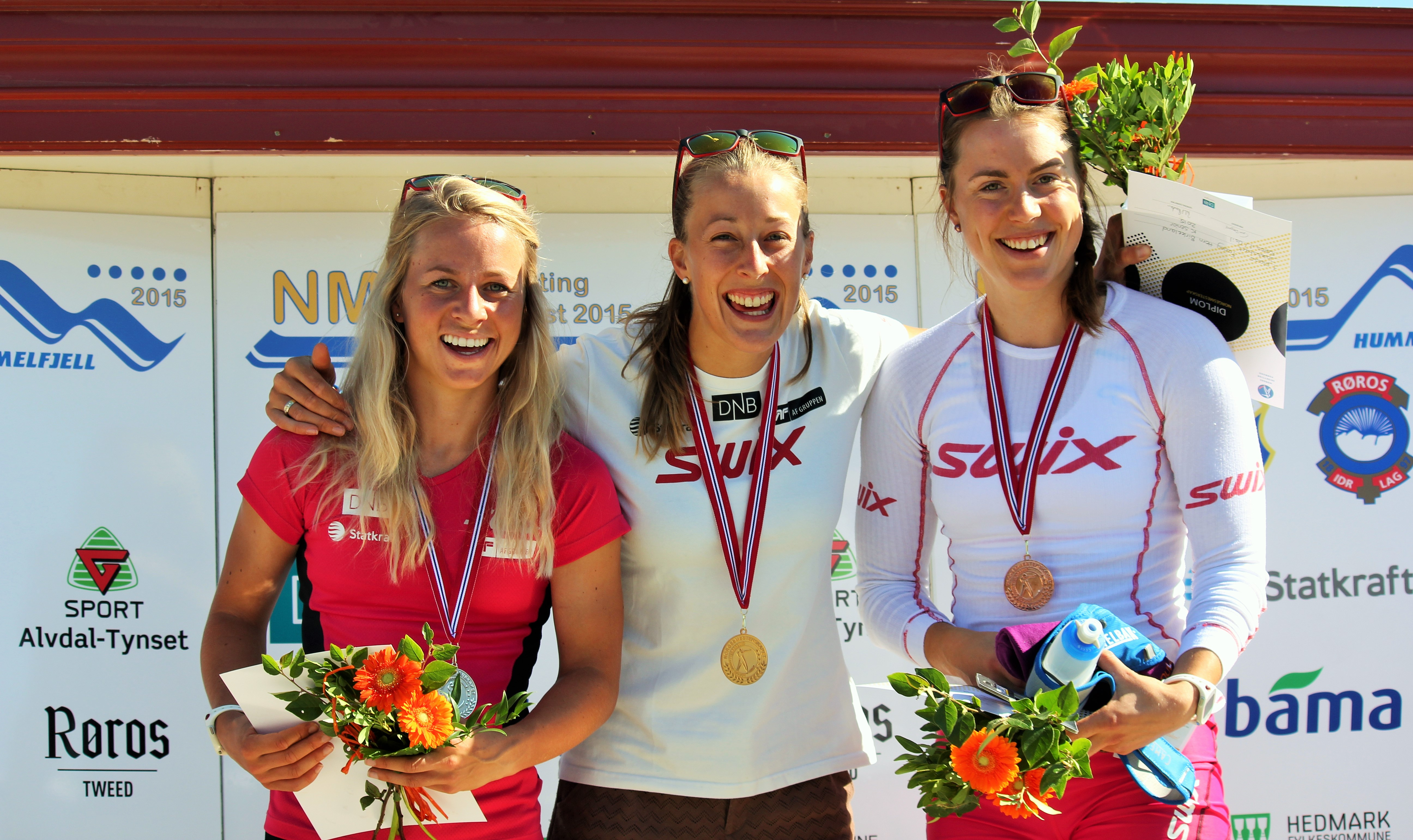 Medal winnes at the 2015 Norwegian roller-ski biathlon championship: Tiril Eckhoff, Fanny Horn Birkeland and Synnøve Solemdal.